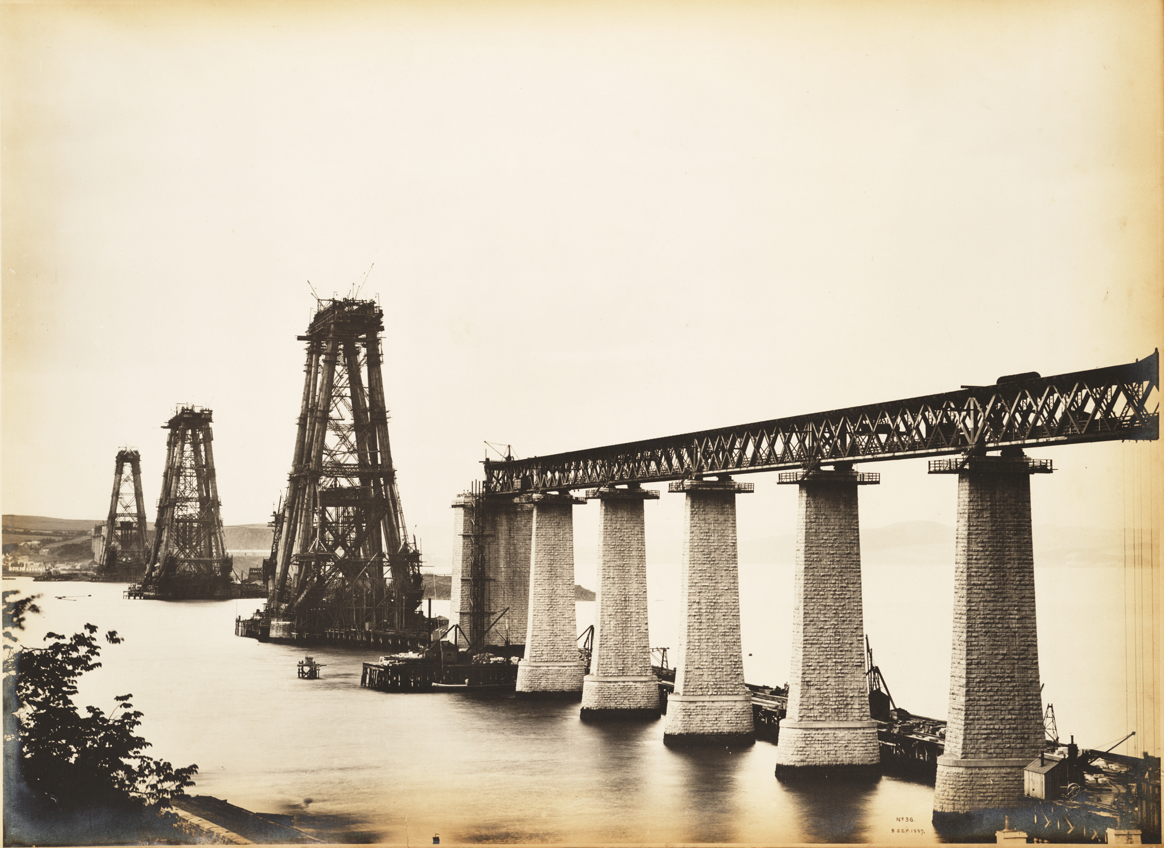 Photograph of the Forth Bridge under construction, general view from back of Newhalls Inn, South Queensferry. A view obtained to meet a continual demand for a picture showing more of the approach viaduct and less of the bridge itself. To this end it was necessary to take up a position which would considerably foreshorten the whole structure. The three cantilevers are shown quite clear of each other, and the left of the picture is bounded by a portion of the Hawes Pier. The detail of viaduct piers can here be seen to perfection, including the platforms used in connection with lifting arrangements. The piers in the foreground have a measurement of rather more than 2 inches at the base, and are about 7 inches in height, the girder about 1.1/5 inches, the Queensferry cantilever 3 inches at the base and 6.1/5 inches high. With these dimensions there should be no difficulty in forming a correct idea of the scale of this really excellent photograph. Transcription from: Philip Phillips, 'The Forth Railway Bridge', Edinburgh, 1890.